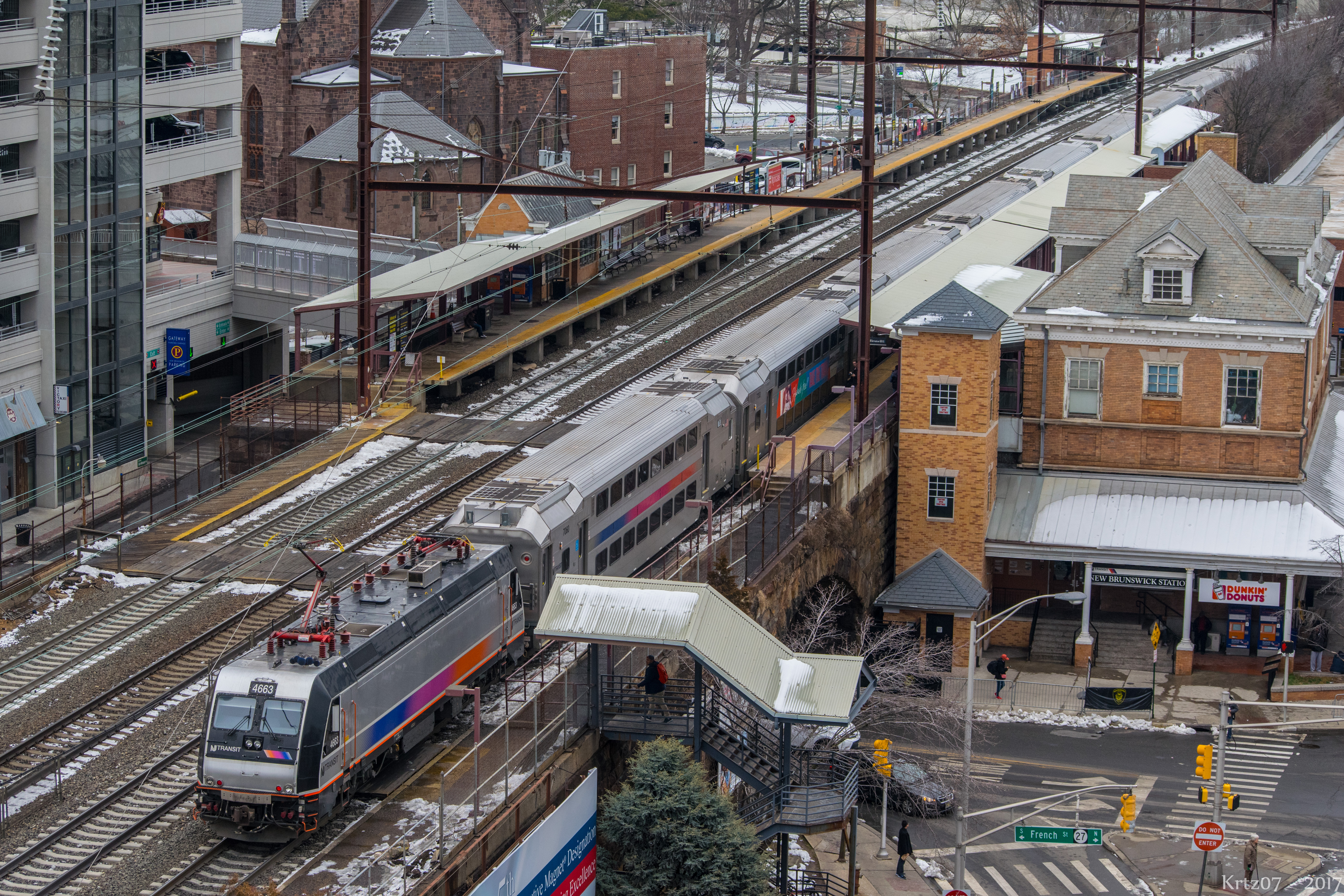 New Jersey Transit train at New Brunswick in February 2017